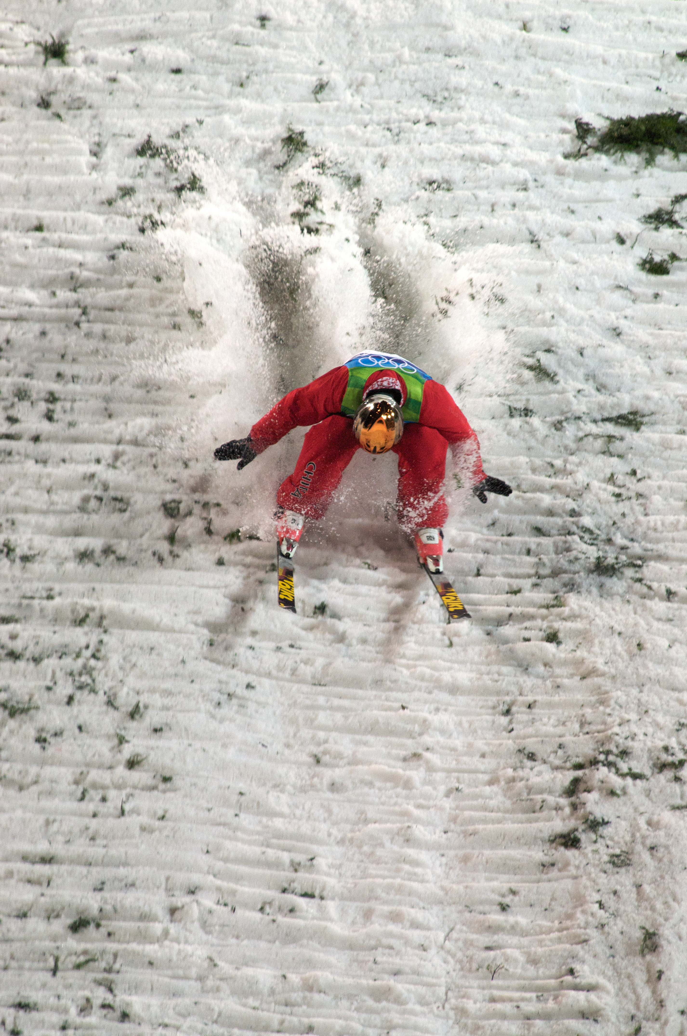 Results: 1. Belarus. GRISHIN Alexei 2. United States. PETERSON Jeret 3. China. LIU Zhongqing